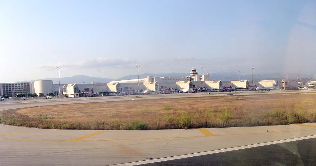 Palma de Mallorca Airport - jet bridges.